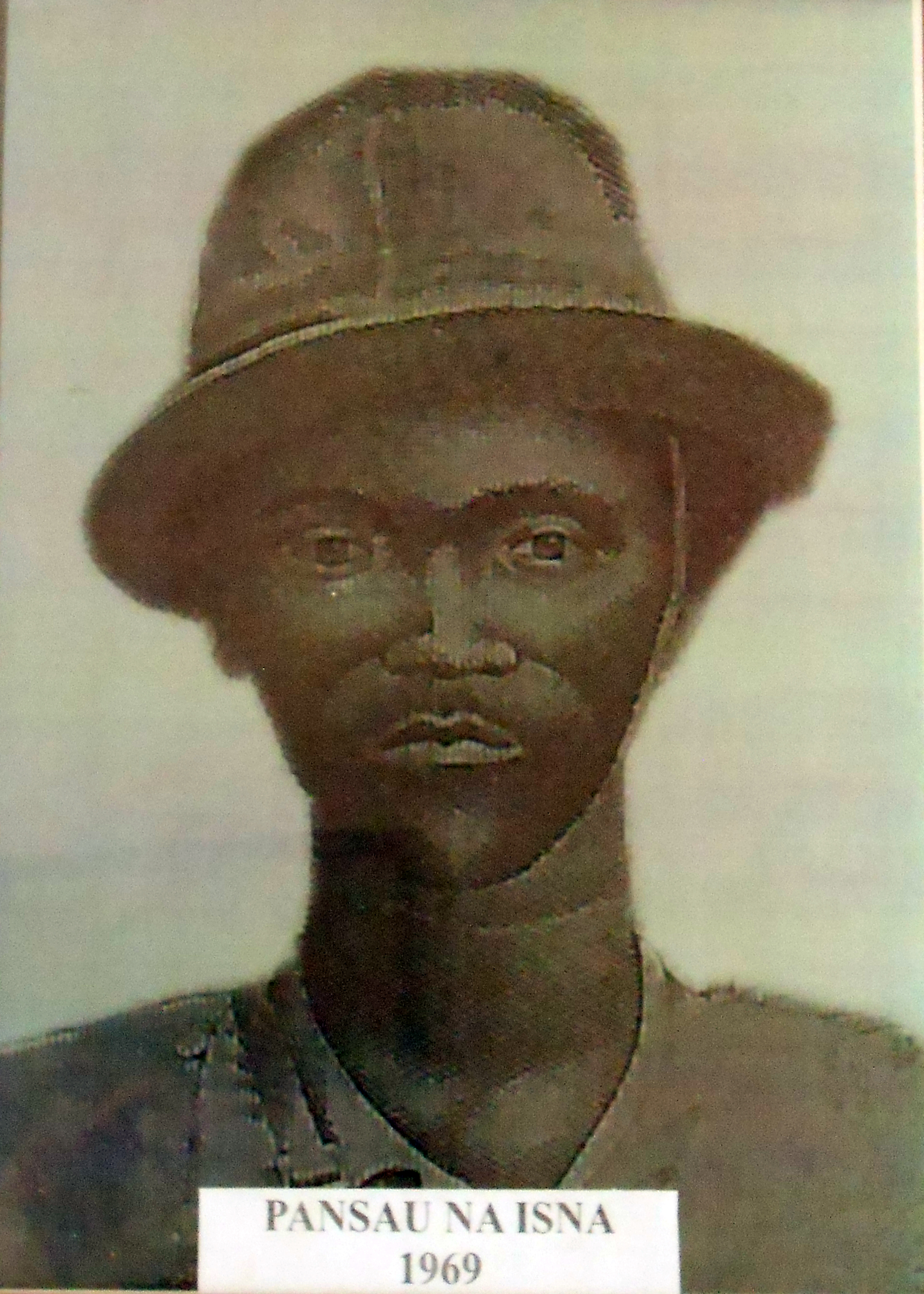 Photography of the guerilla fighter Pansau Na Isna in the Museu Militar da Luta de Libertação Nacional in Bissau.